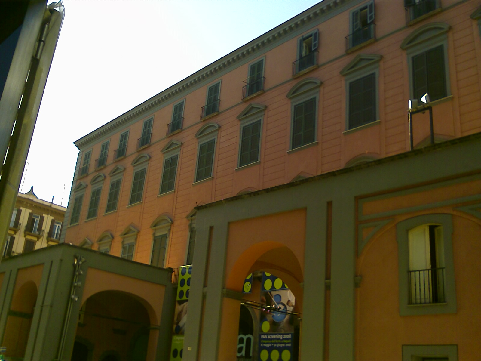 PAN Facade (Palace Arts Naples)